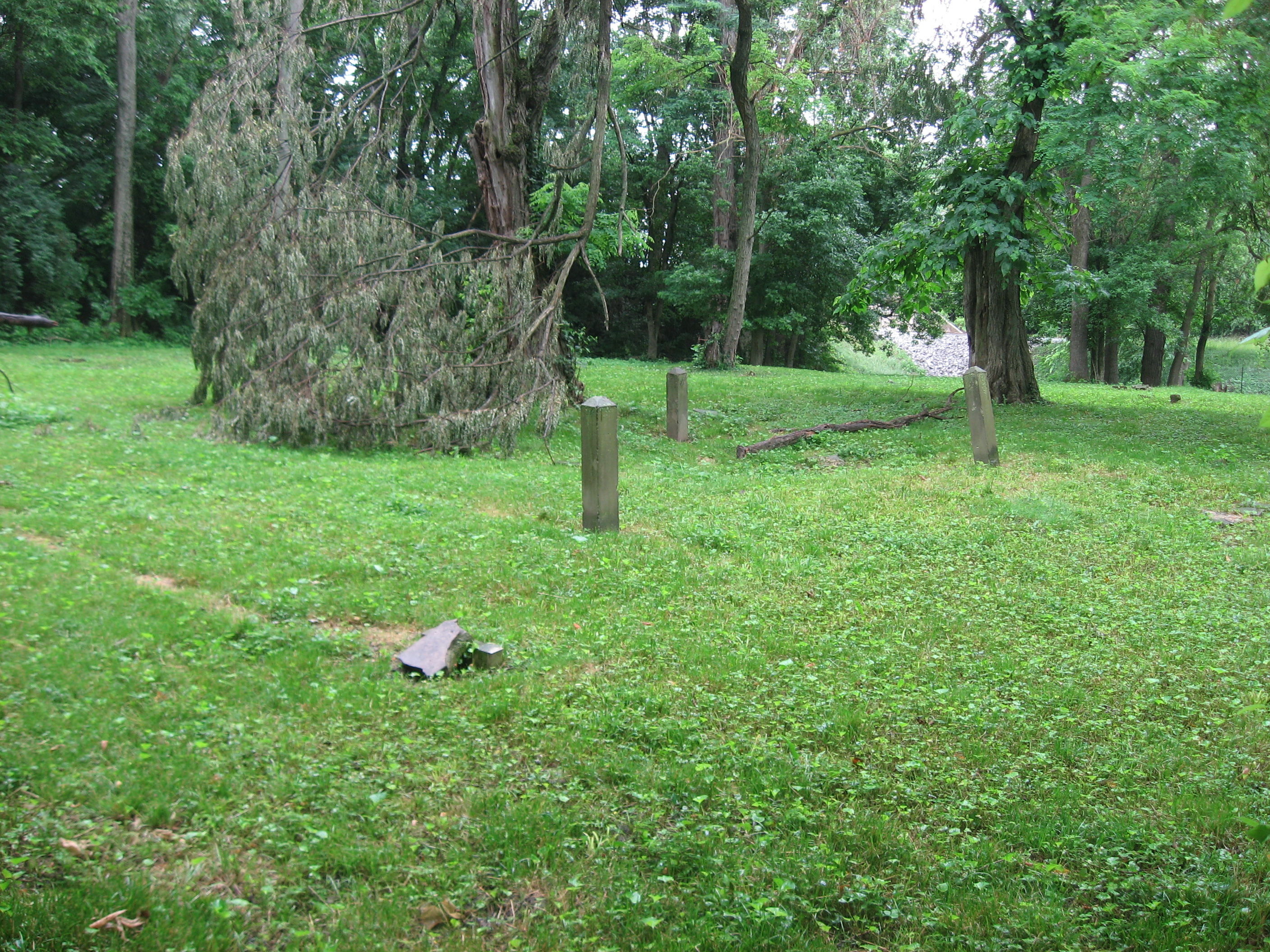 Overview of the Fulton-Presbyterian Cemetery, located at the end of Dumont Street in the Columbia-Tusculum neighborhood of Cincinnati, Ohio, United States. Founded in 1804, the cemetery is listed on the National Register of Historic Places.